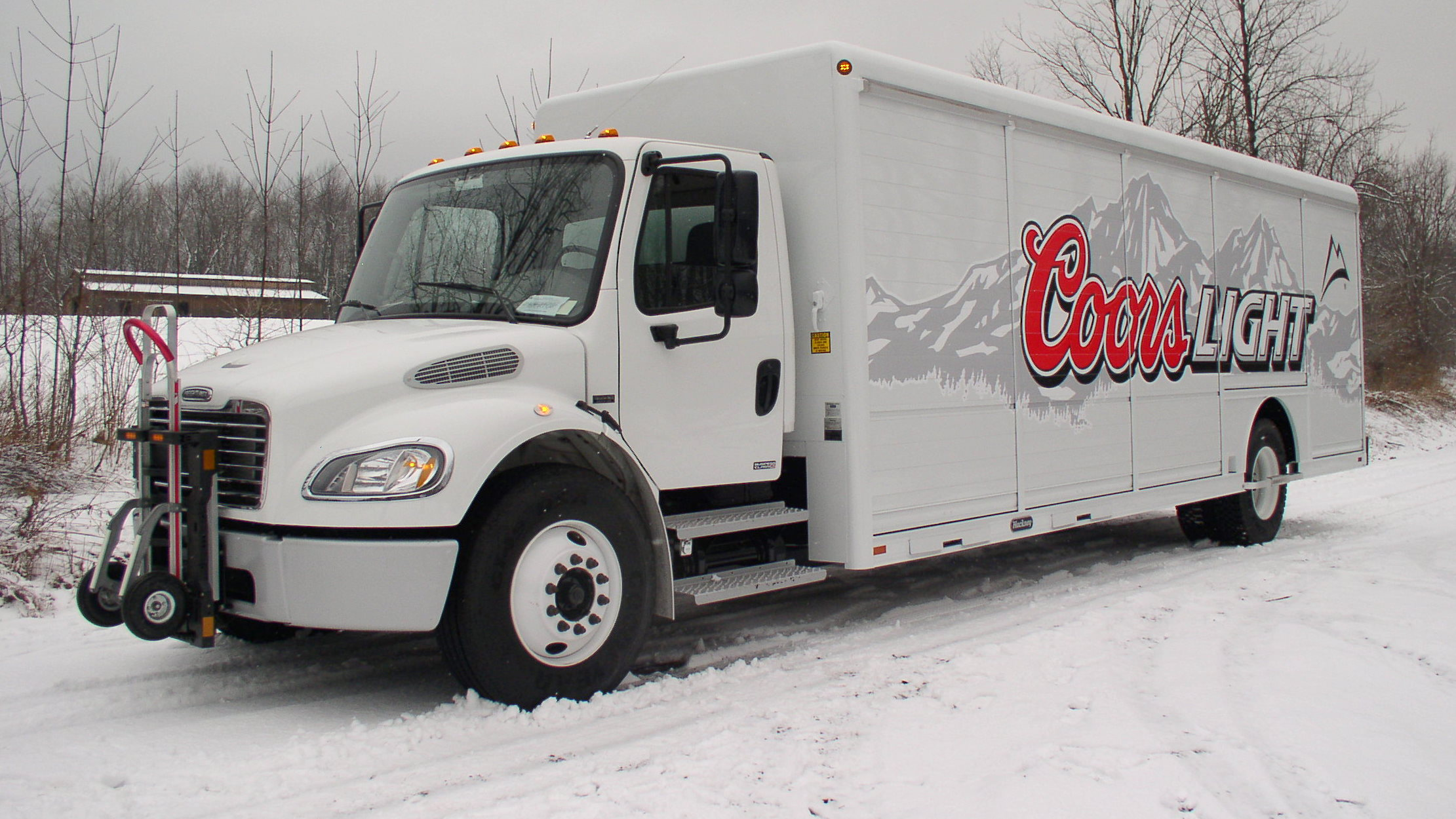 Coors Light beverage truck equipped with a Hand Truck Sentry System HTS Ultra-Rack. Hackney Beverage Body on Freightliner M2 chassis.